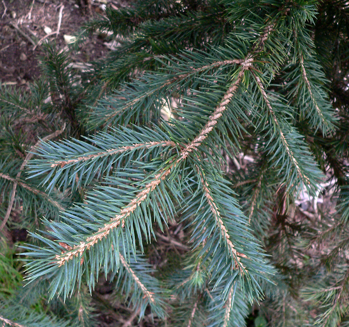 Picea chihuahuana at the San Francisco Botanical Garden